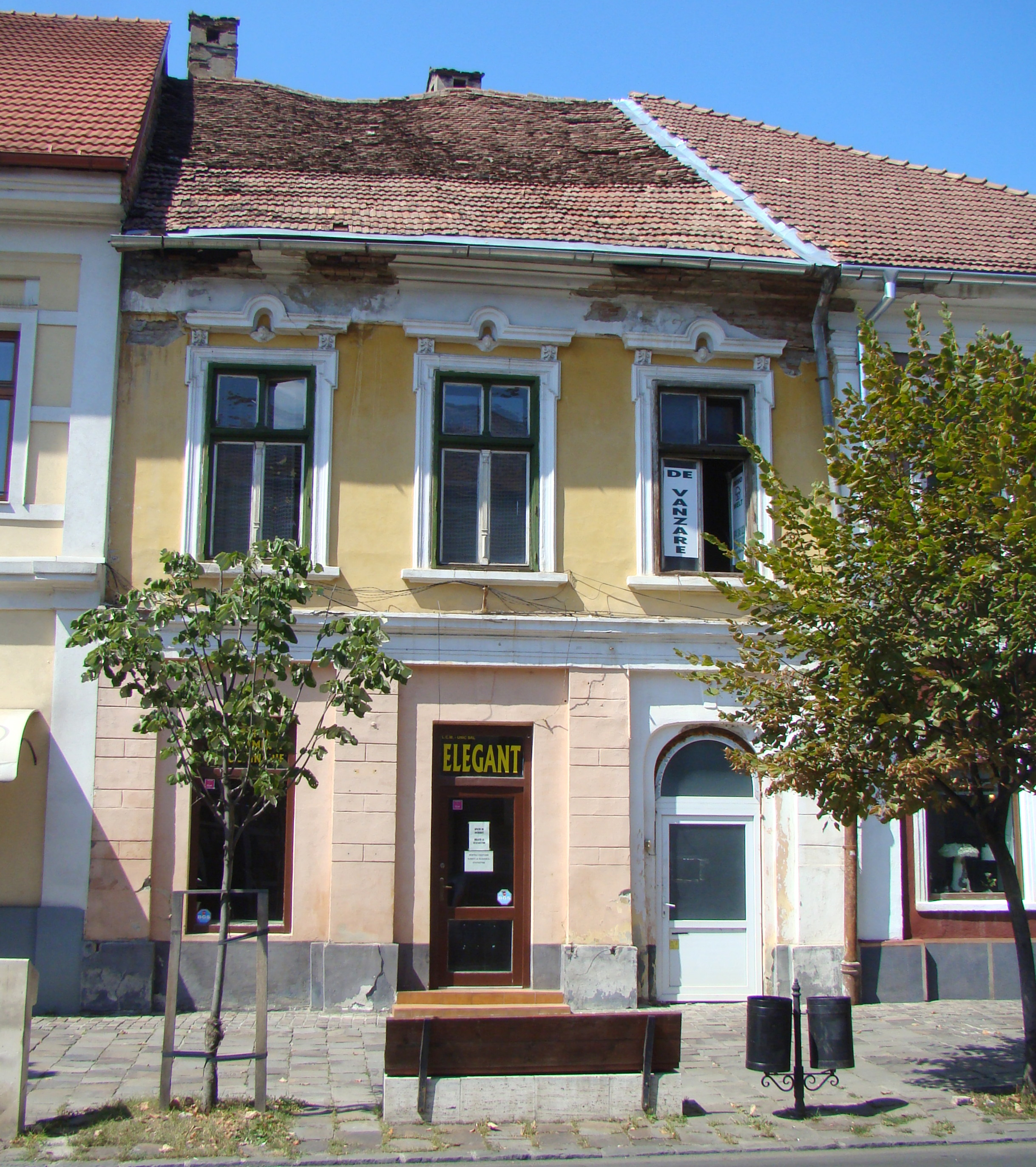 House, historic monument, in Bistrița, Gheorghe Șincai street 8